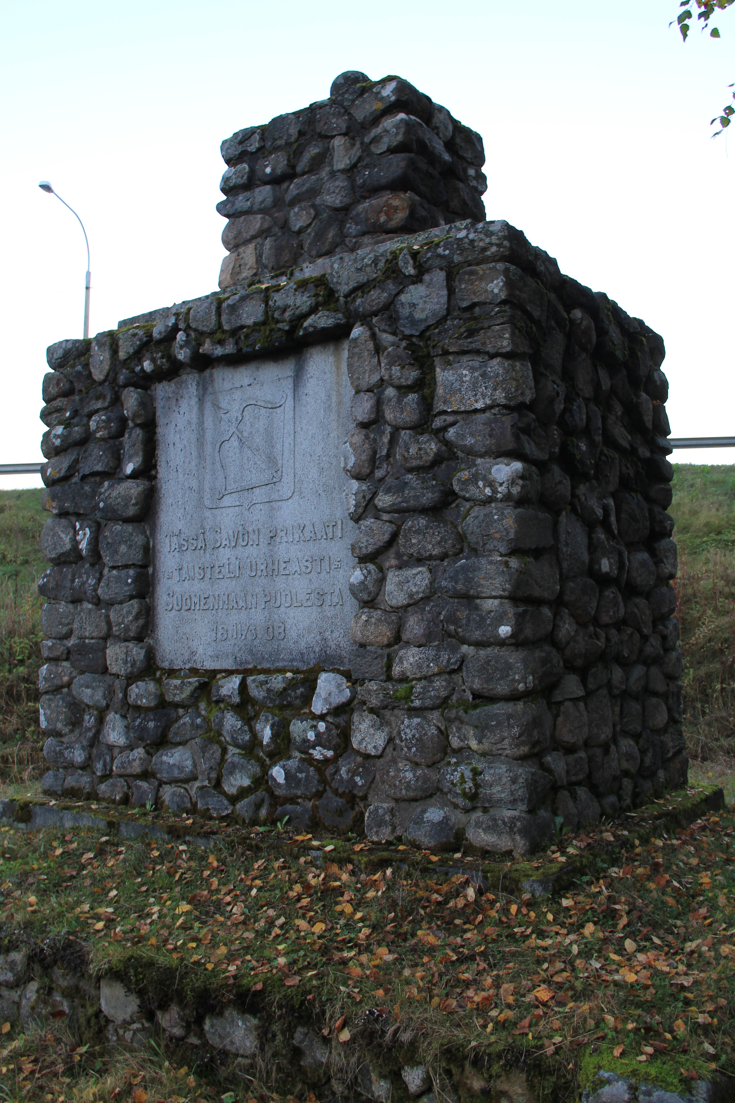 Kalmalahti battle memorial, Leppävirta, Finland. - Unveiled in 1933, designed by architect J. Nykänen.